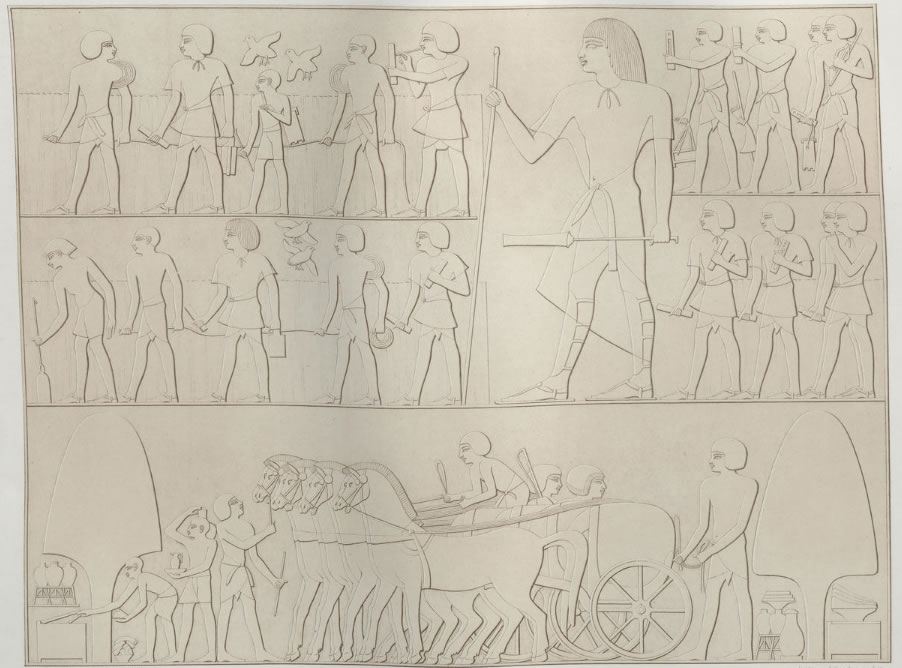 TT57, agriculture scenes on East wall of tomb chapel, broad hall